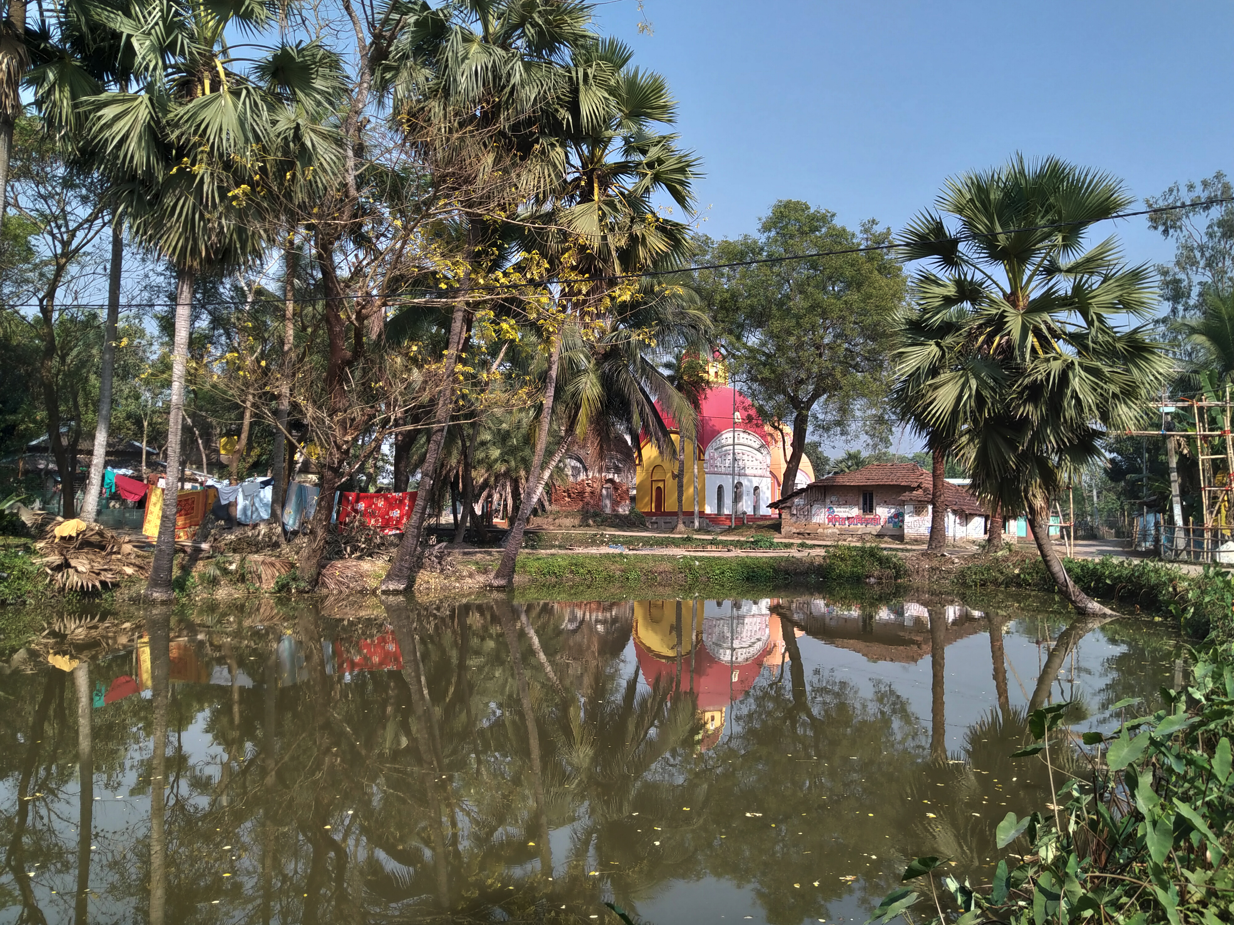 Aatchala Dakhsina Kali temple at Bhagabanpur under Purba Medinipur in West Bengal, The temple has two other Aatchala adjacant to it.